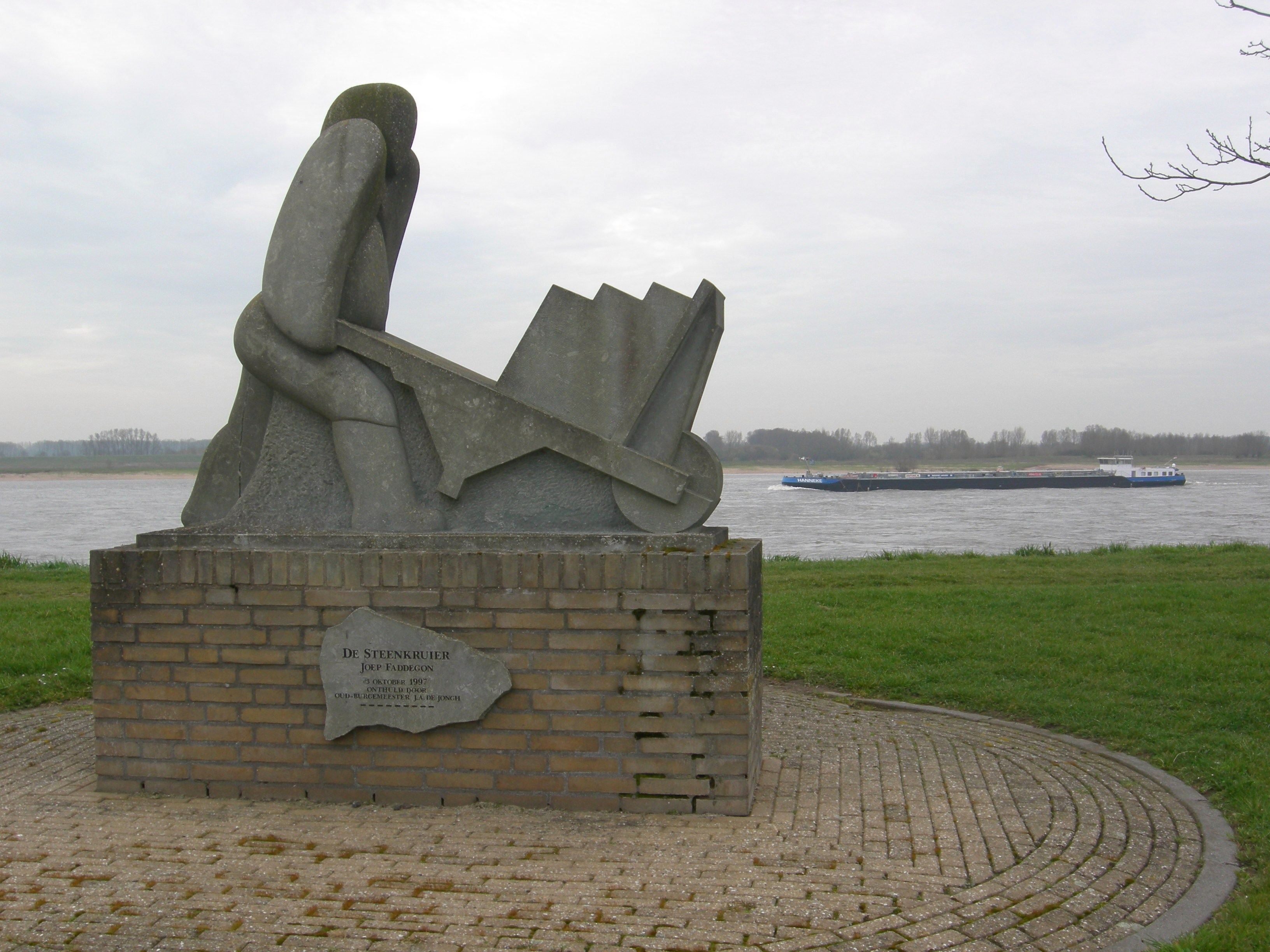 JoepFaddegonStatueHerwijnen